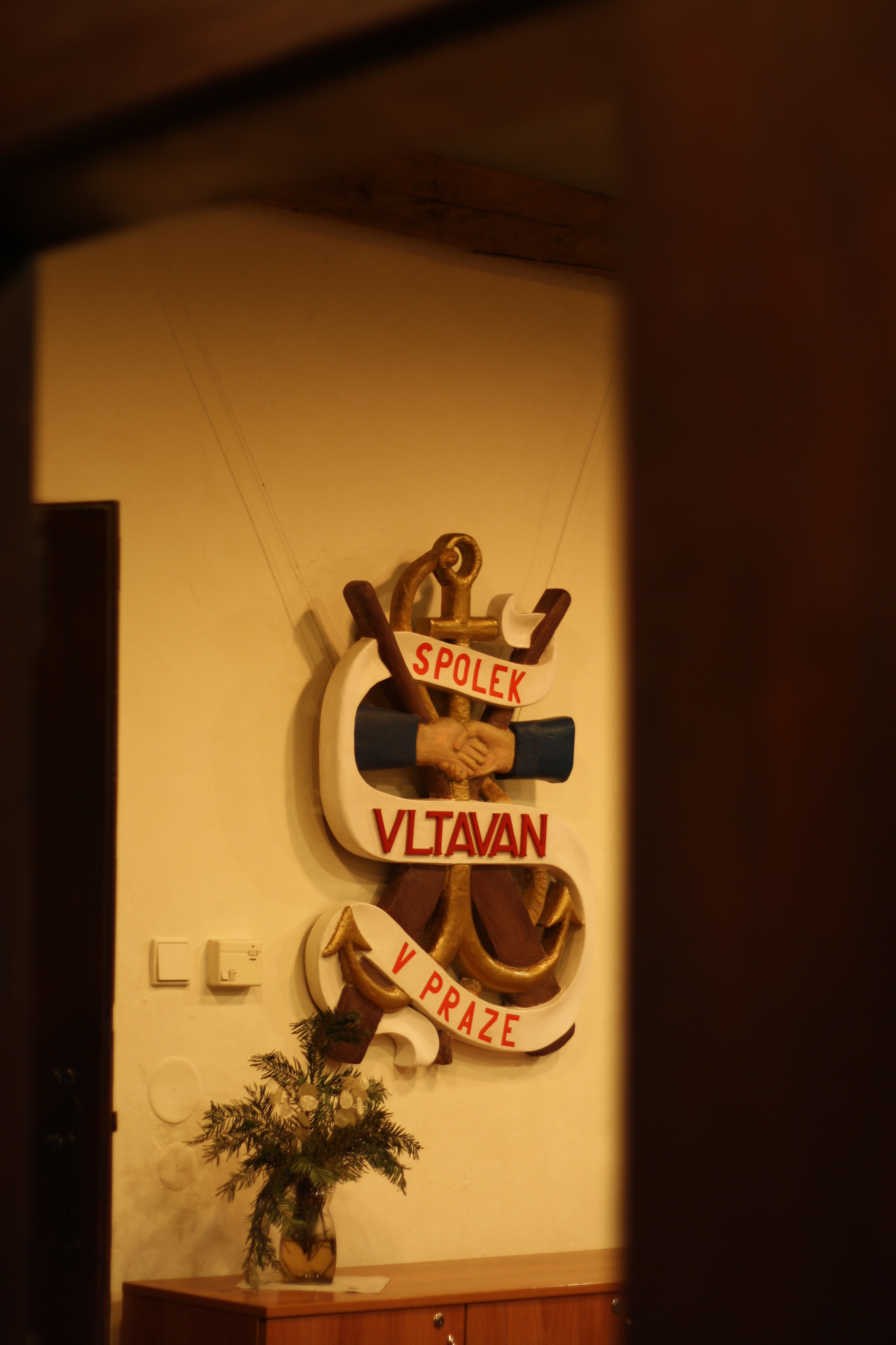 Logo of Vltavan Group in exhibition of Podskalí Custom House